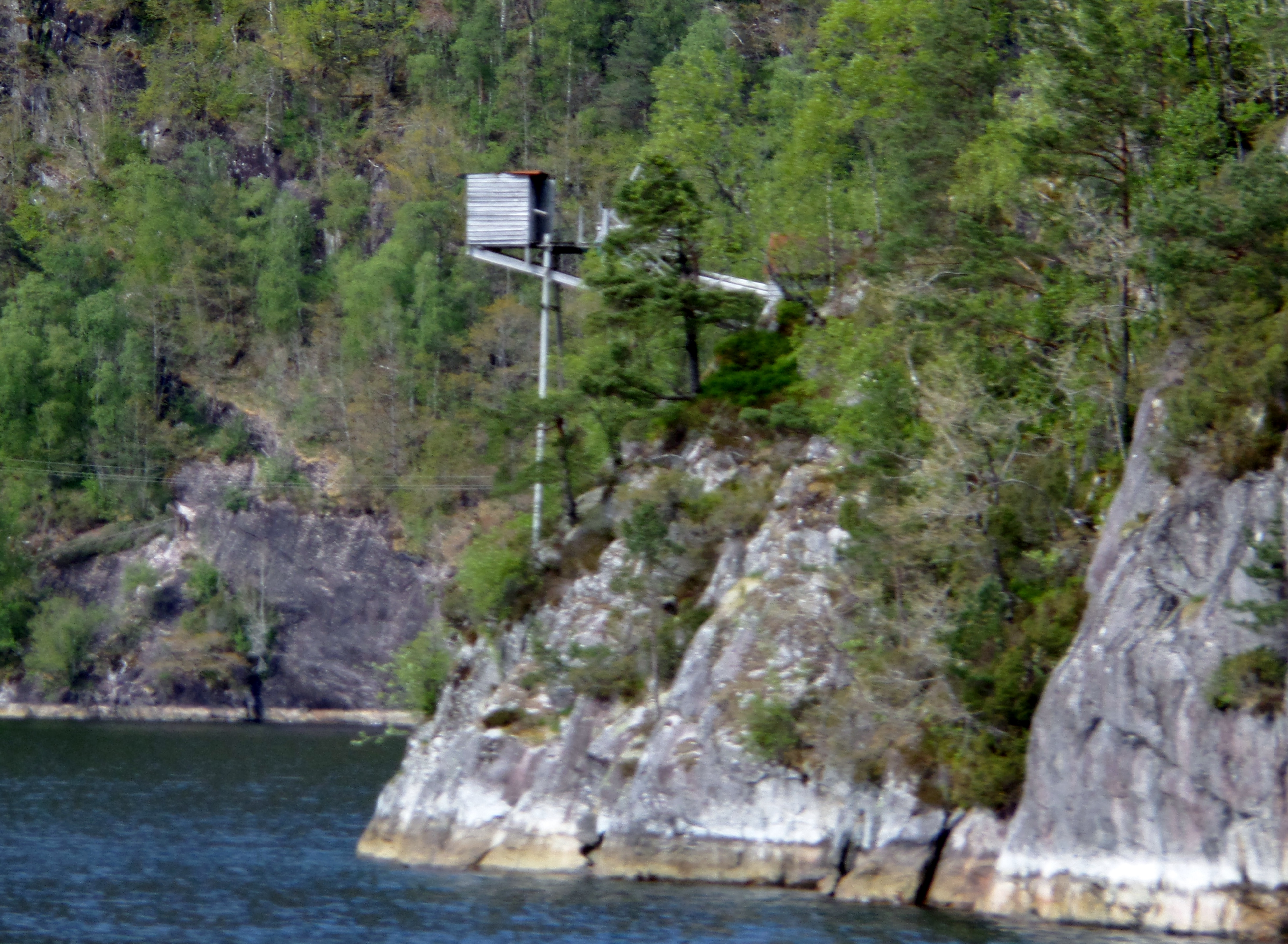 A Laksegiljer in the Osterfjord, Norway. A salmon fishing method operated from a cabin on stilts and involving a net, a white board and a weighted closing system.